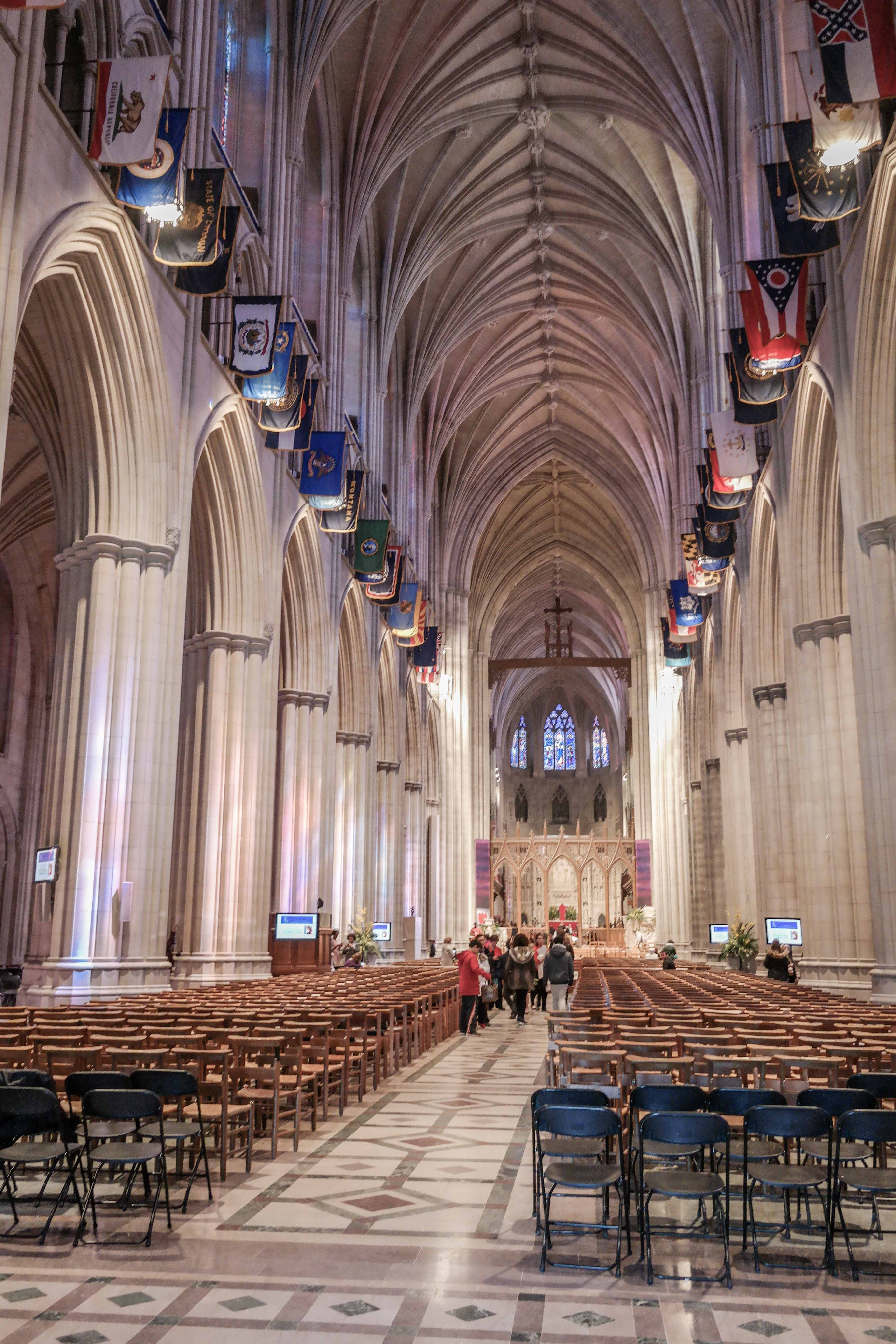 A view of the Washington National Cathedral in Washington, DC